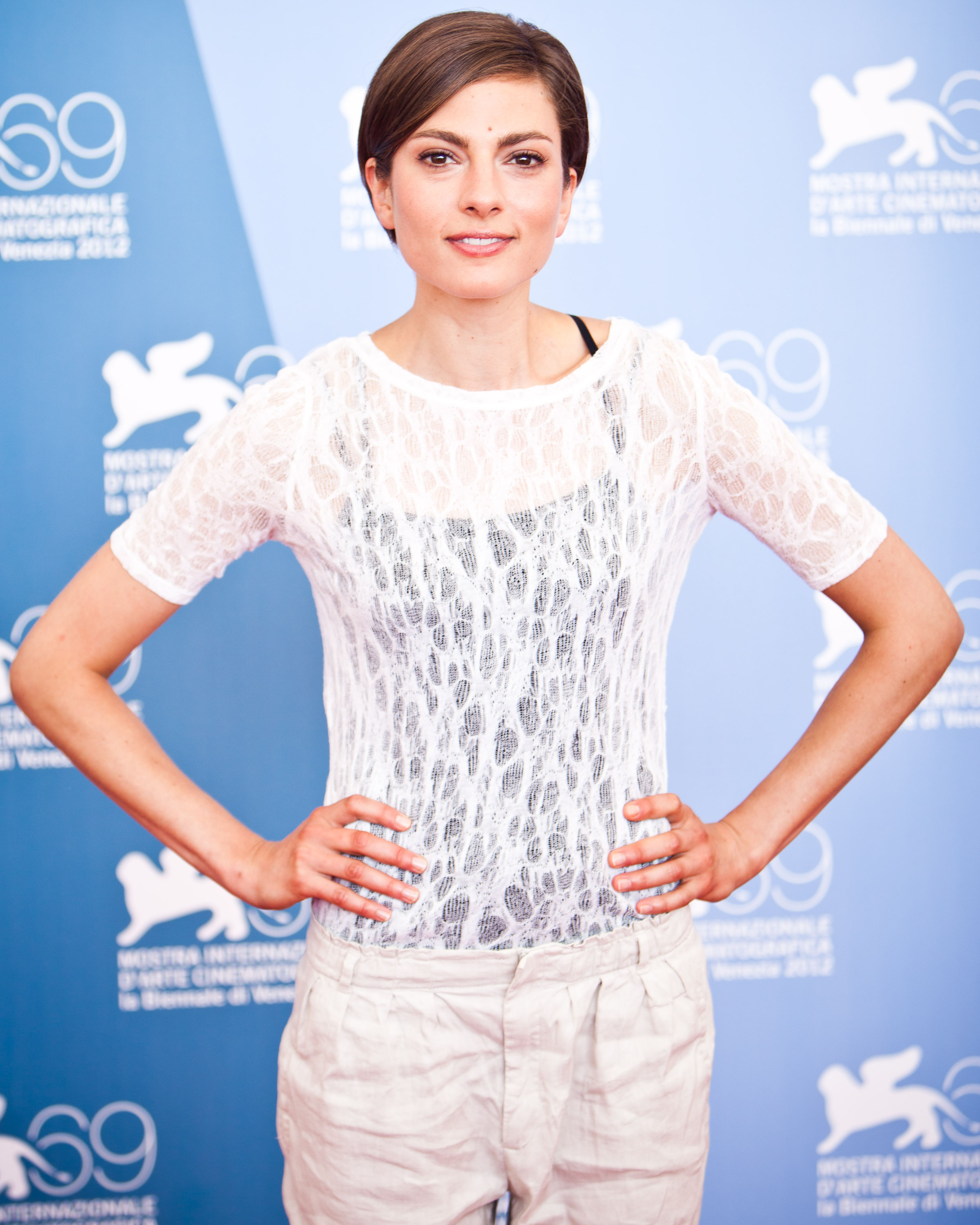 Laura de Boer at the 69th Venice International Film Festival 2012